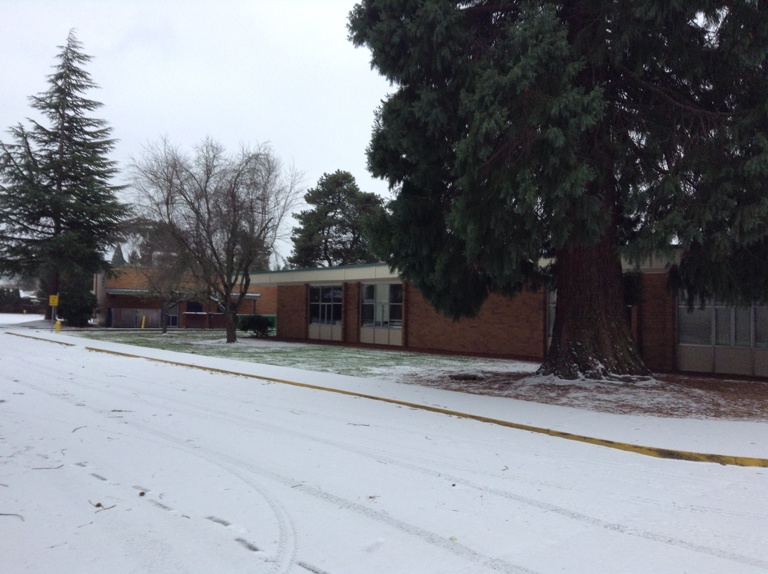 Terra Linda Elementary School in Beaverton, Oregon